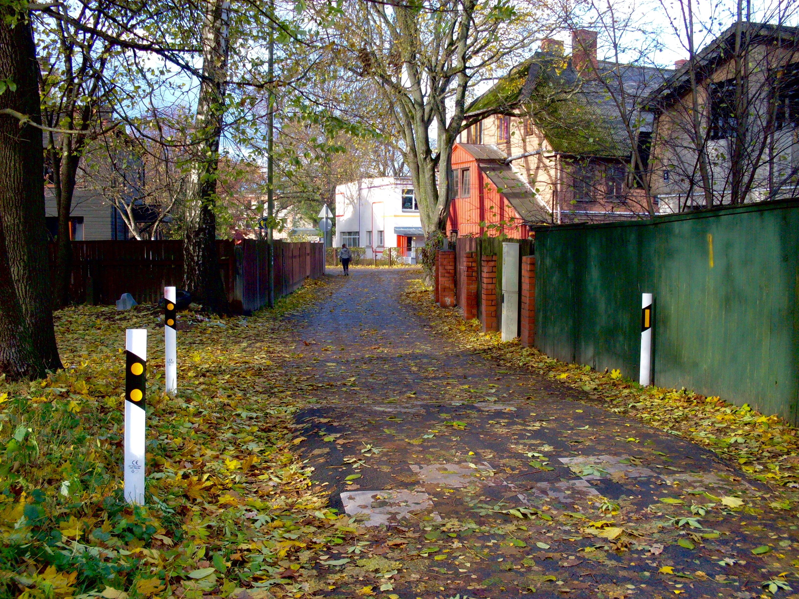 Riga, Žubīšu street in district Āgenskalns.